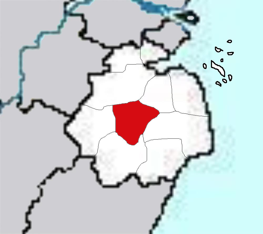 Maps of Zhejiang Province of China